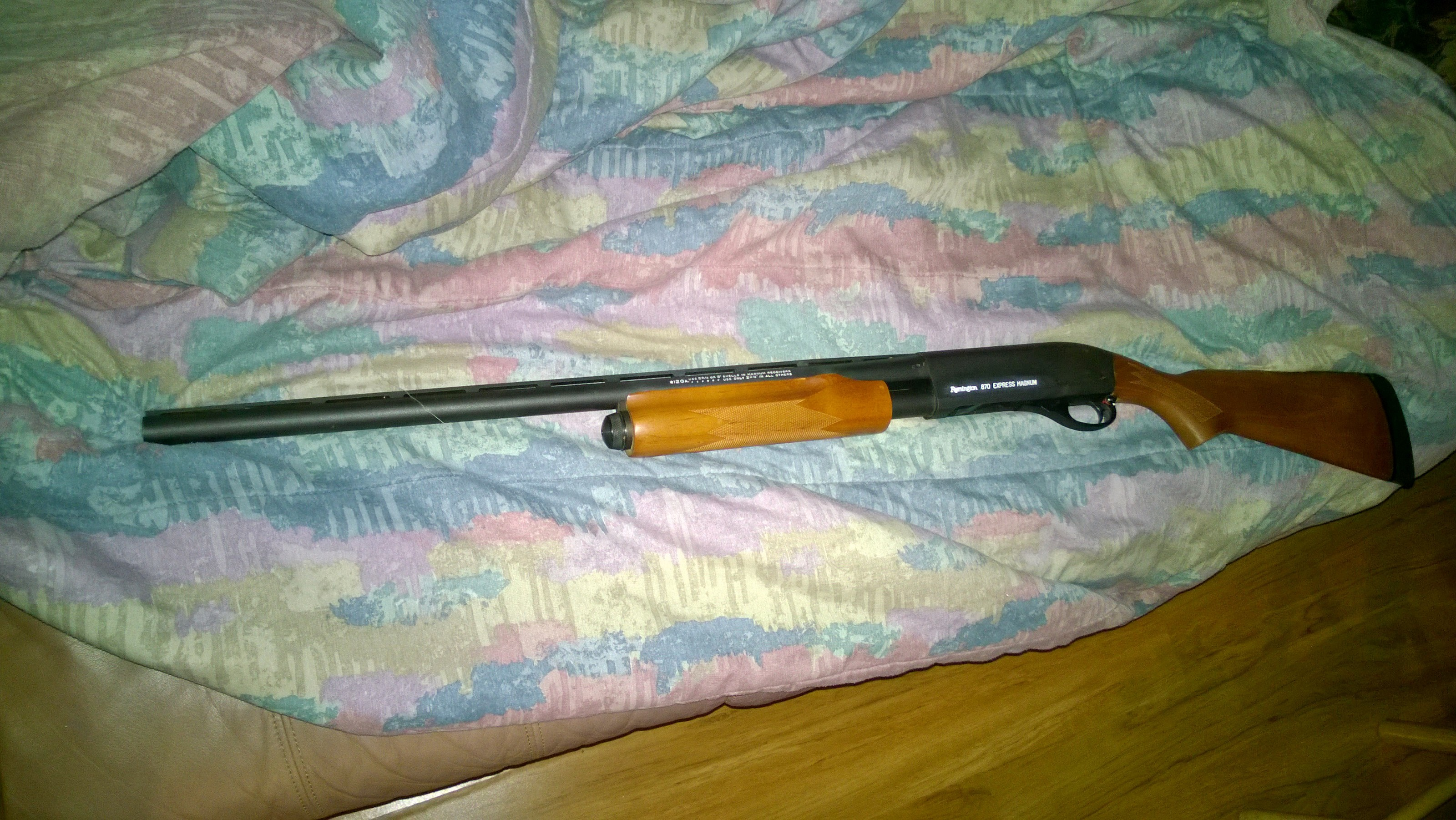 The hunting version of the Remington 870.